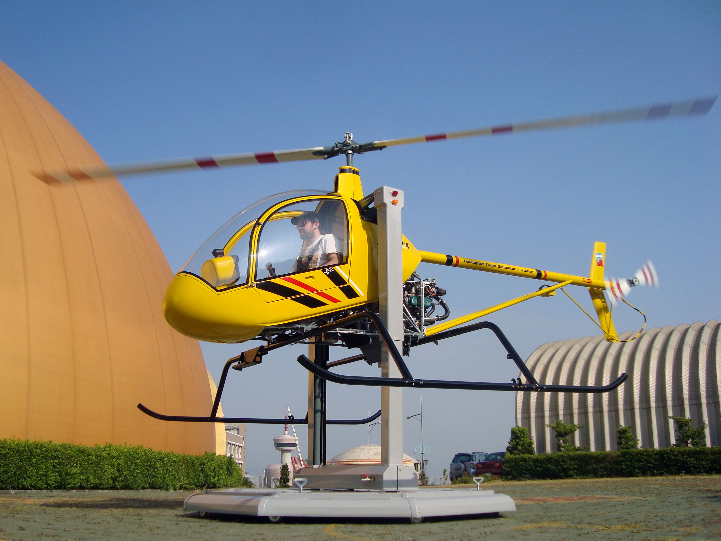 The Argentine Flight simulator SVH-4 built by Cicaré